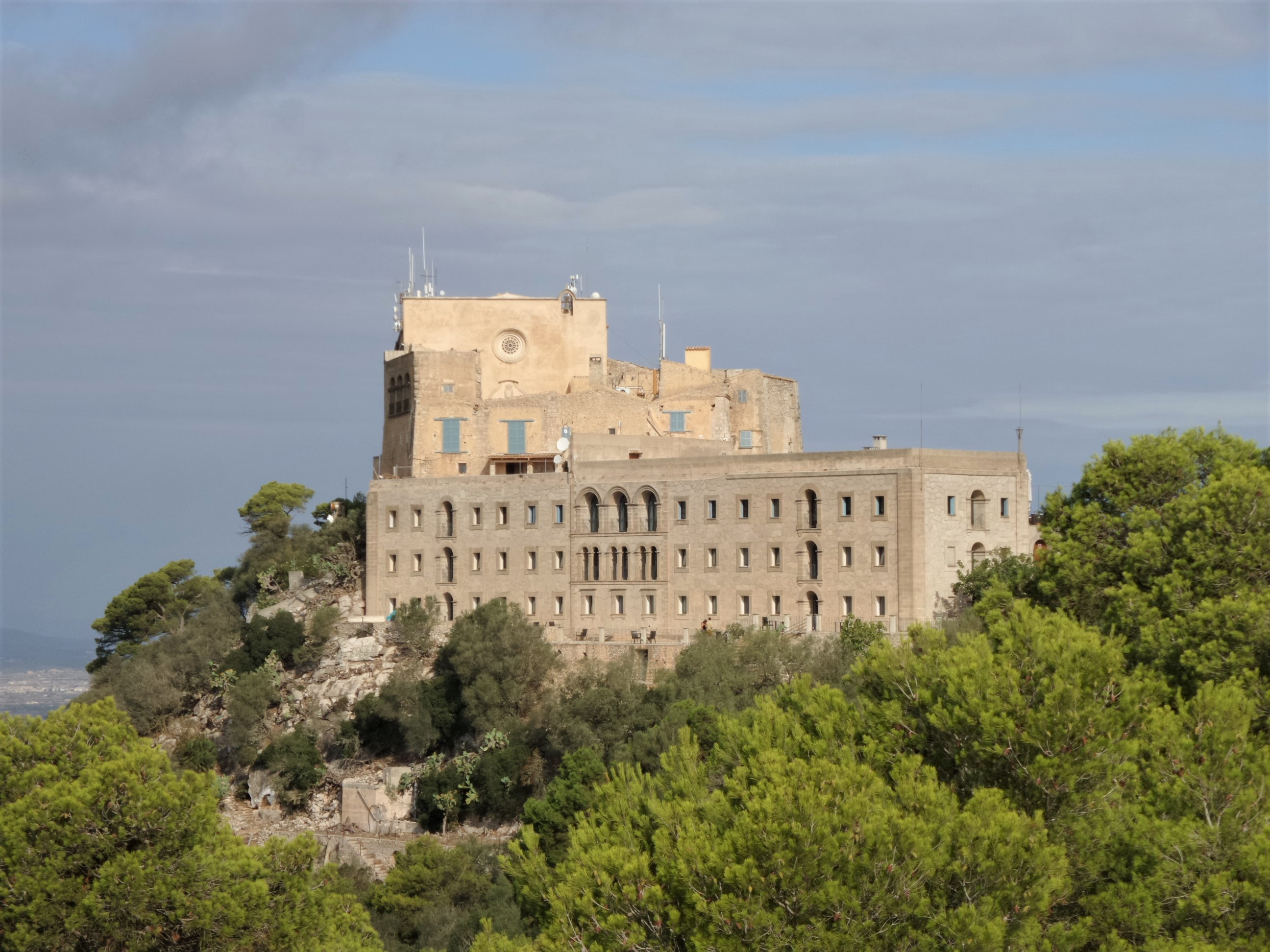 Santuari de Sant Salvador de Felanitx